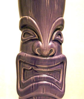 Tiki mug